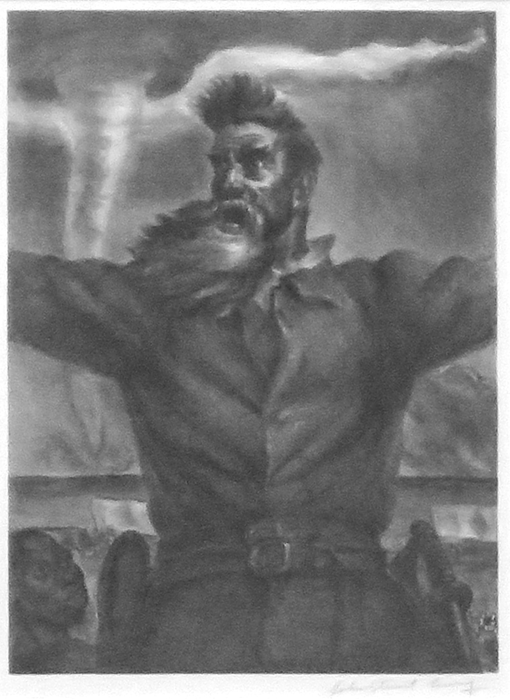 John Brown by John Steuart Curry, 1939, lithograph, Honolulu Museum of Art, accession 16199